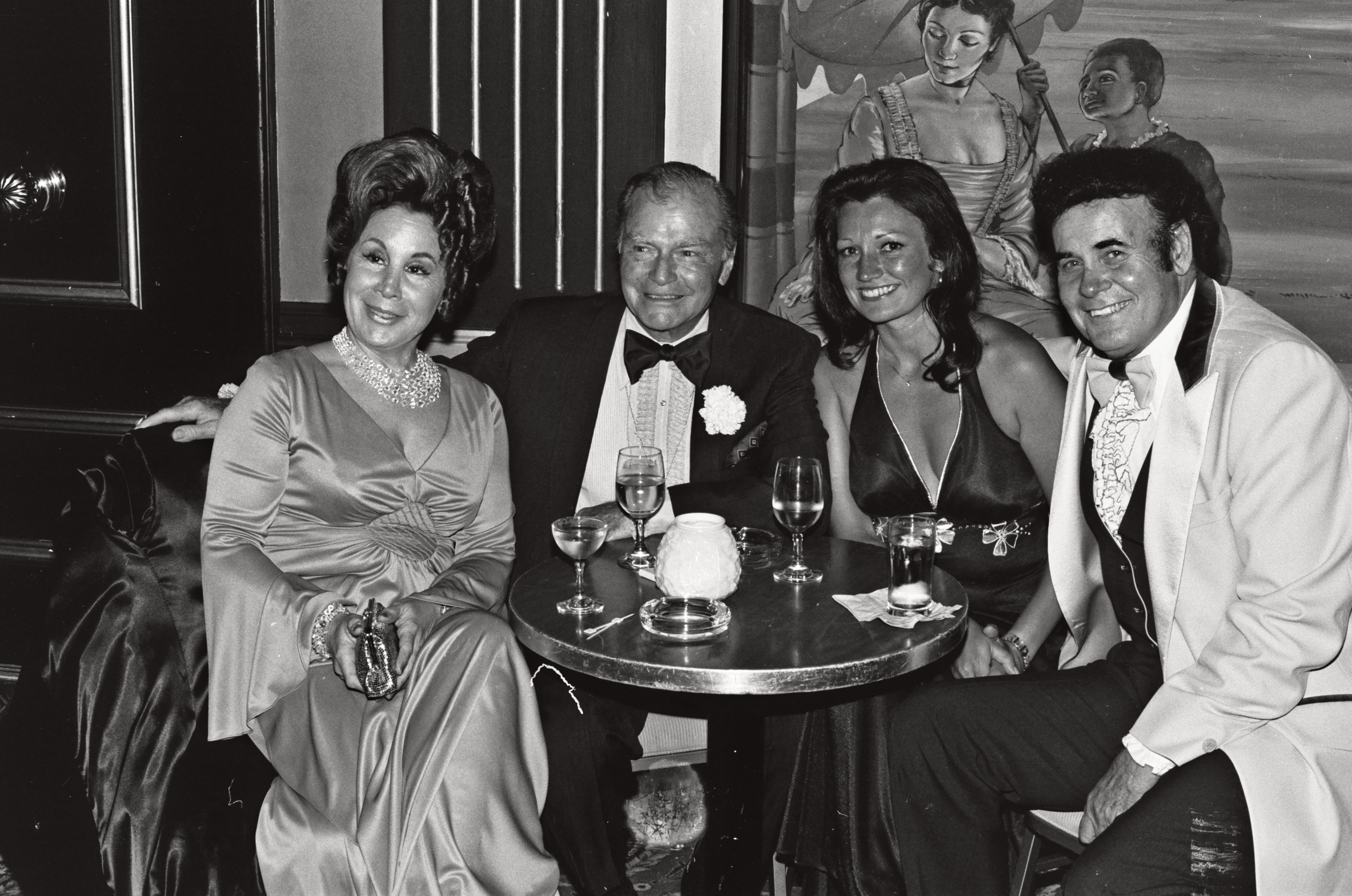 Western star Don "Red" Barry and wife Barbara Patin (center) and Sunset Carson (right) - at the National Film Society convention, May 1979. On July 17, 1980 he committed suicide by gunshot, reportedly after an argument with his then-estranged wife, Barbara. Carson died 1990. NOTE: Permission granted to copy, publish, broadcast or post any of my photos, but please credit "photo by Alan Light" if you can. Thanks.